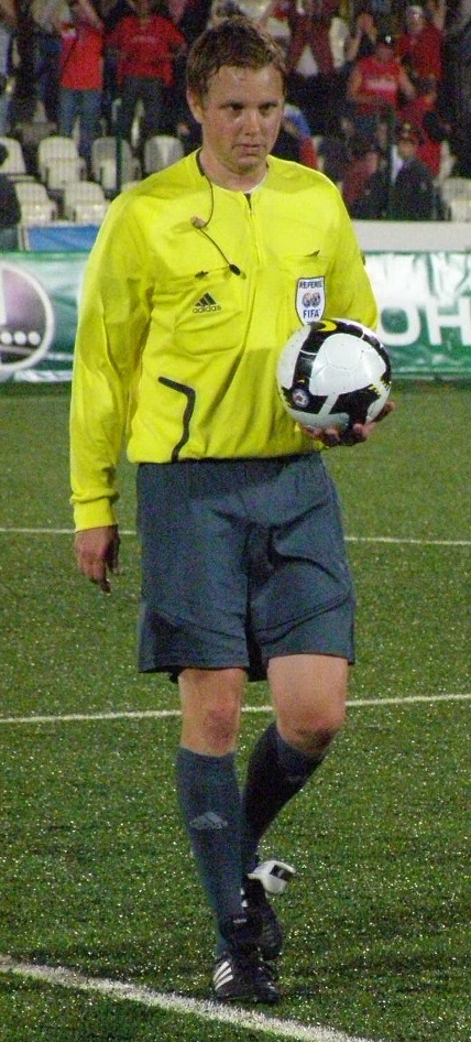 Markus Strömbergsson in UEFA Europa League play-off round match between FC Amkar and Fulham F.C.